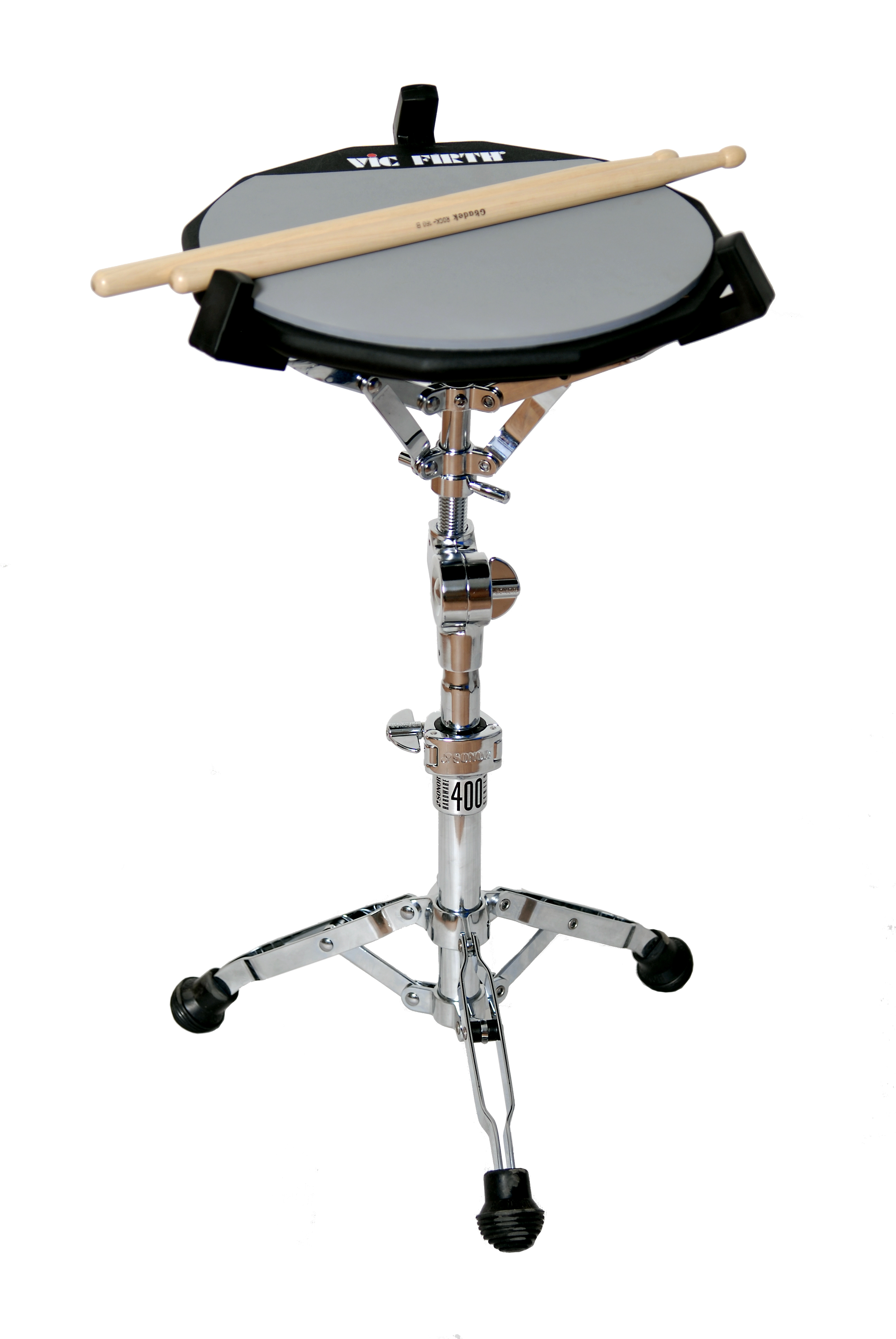 A practice pad